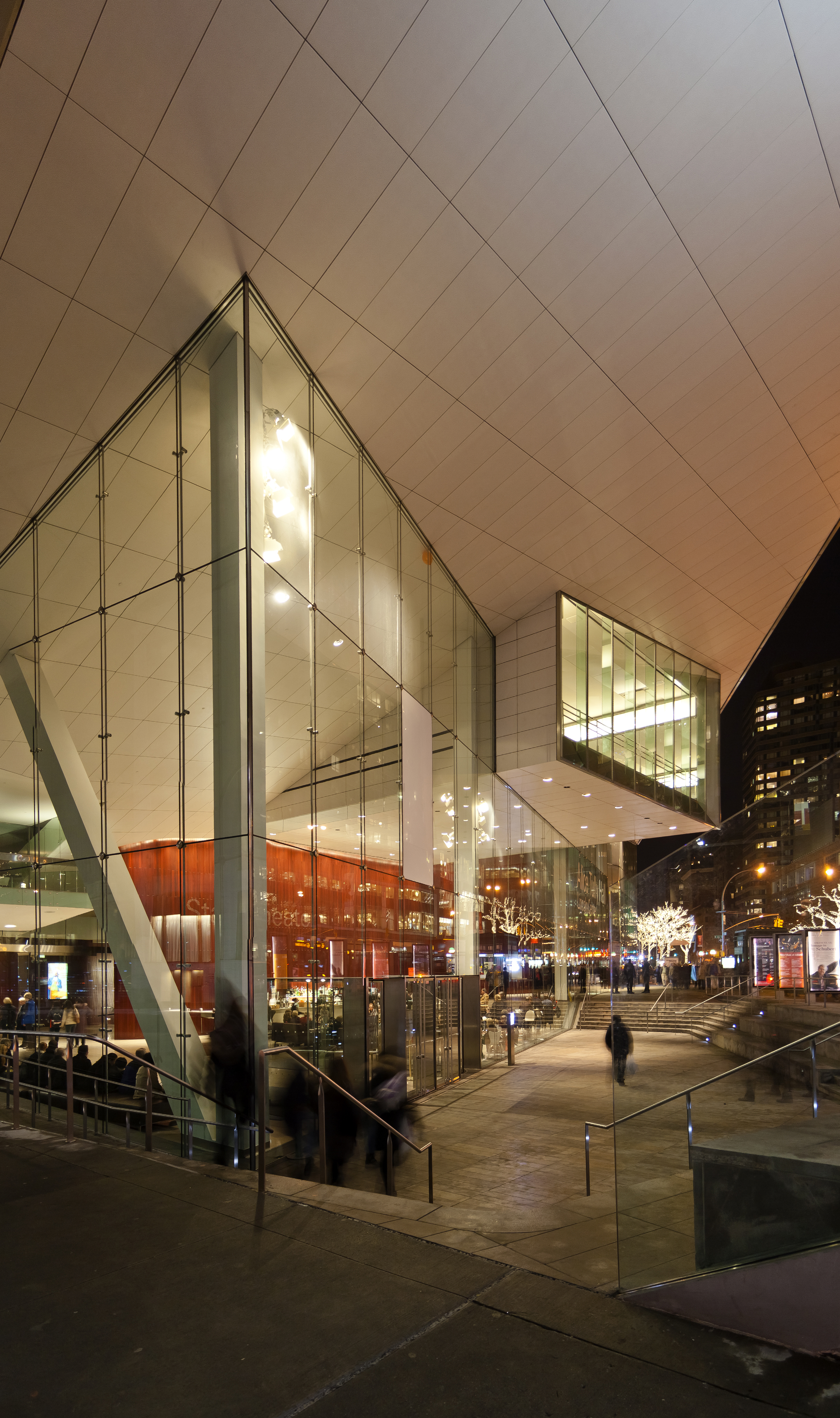 Alice Tully Hall plaza and lobby at night.